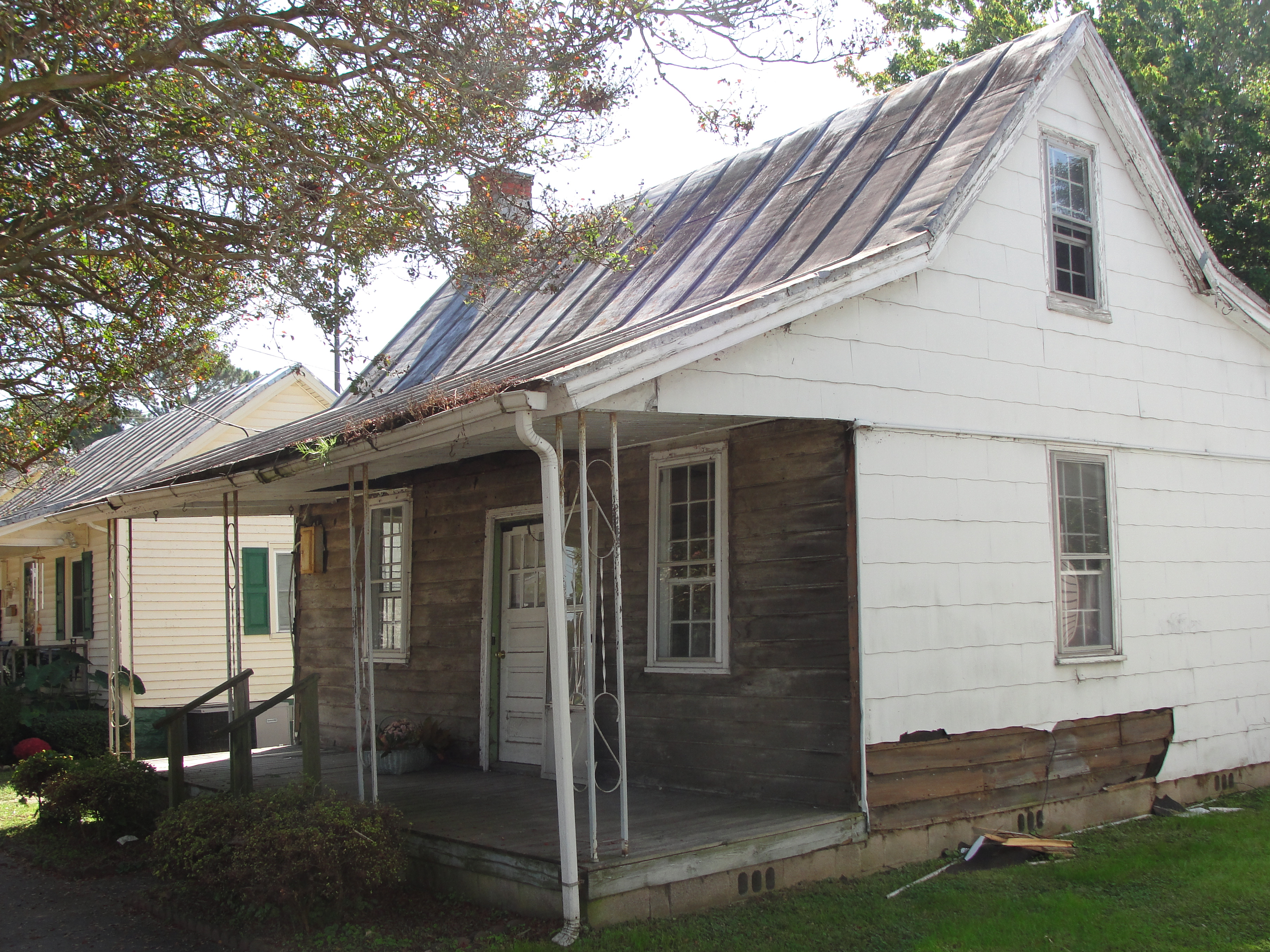 The Lane House in Edenton, Chowan County, North Carolina was built in 1719. Privately owned, not open to the public.